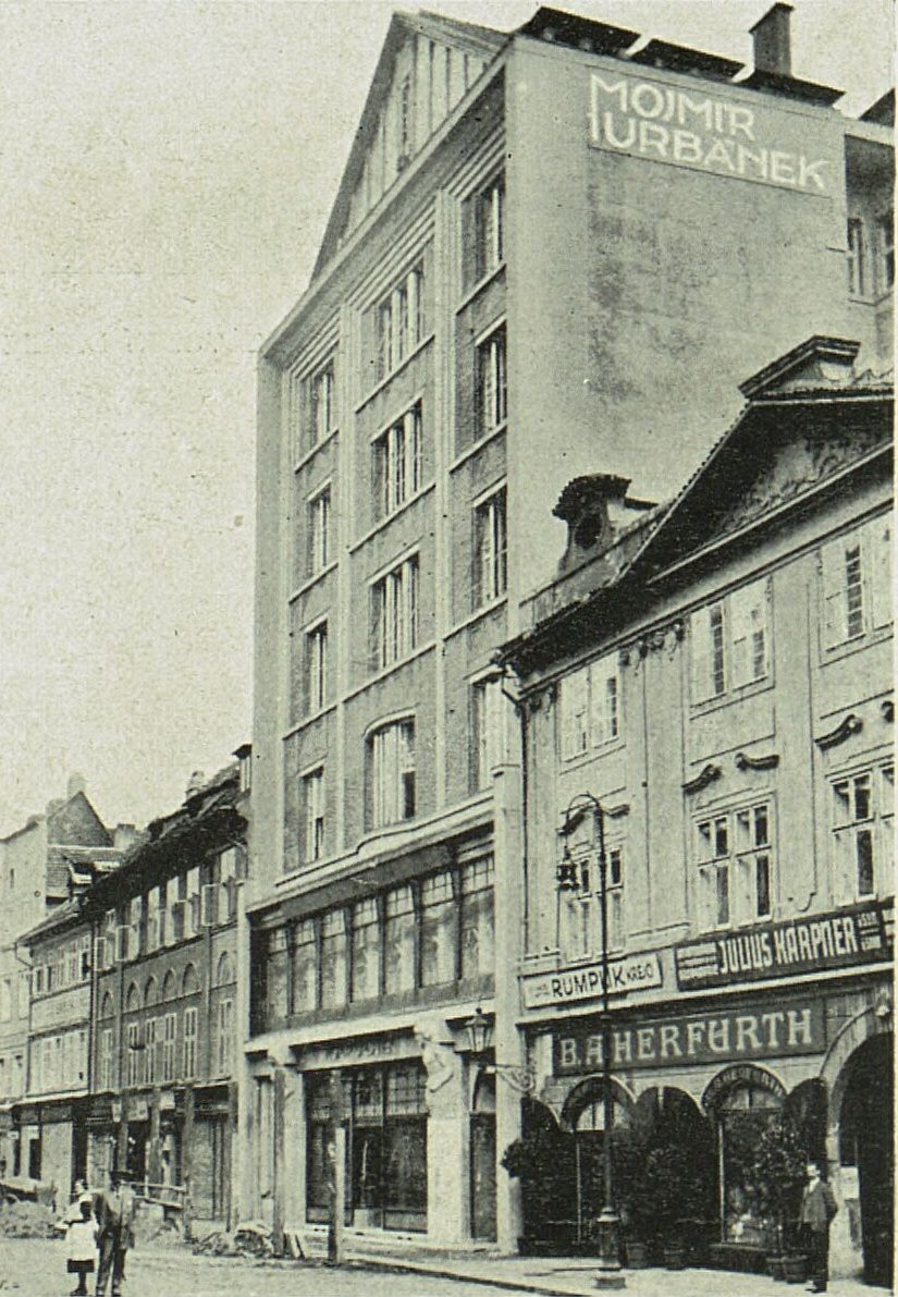 Old view on Mozarteum house